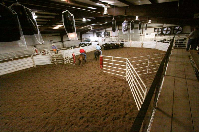 Two horsemen practice the western equestrian sport of Ranch Sorting at the Play Pen Arena in Ponca City, Oklahoma on October 11, 2008. Use of this photo must include an attribution to Hugh Pickens and a link to Hugh Pickens.